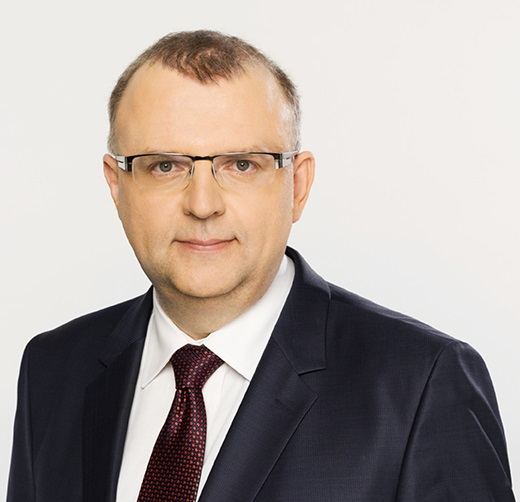 On the picture there is Kazimierz Ujazdowski, Polish politician. It comes from the webpage: and is distributed according to the consent expressed on this page